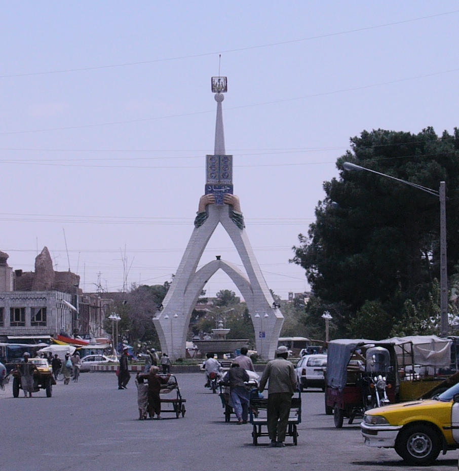 Monument in Herat, Afghanistan